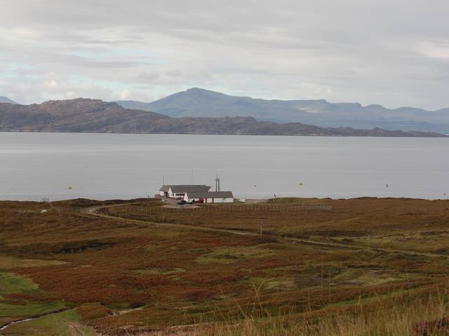 BUTEC Range Terminal Building The Range Terminal Building (RTB) on the Applecross peninsula. This is the BUTEC (British Underwater Test and Evaluation Centre) base from which all the sea trials in the Inner Sound are performed. The view across the sound is to Raasay, with Trotternish on Skye beyond it. The highest point on the horizon is the Storr.